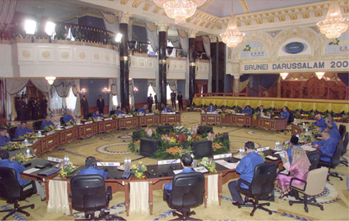 BANDAR SERI BEGAWAN, BRUNEI. An informal summit of the Asia-Pacific Economic Cooperation (APEC) member countries.